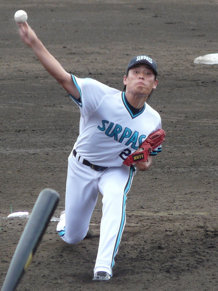 Kenji Kobayashi